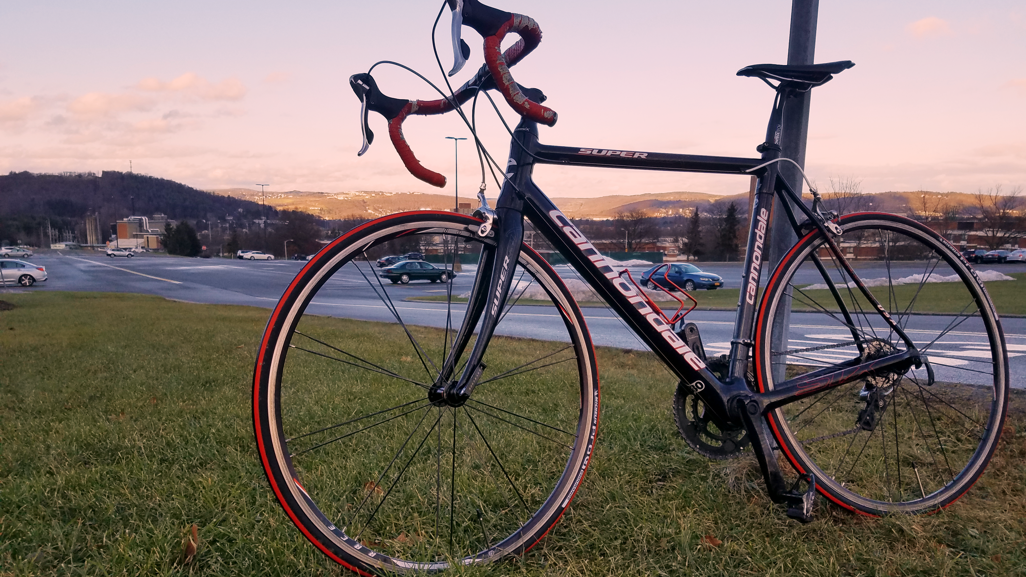 A 2008 Cannondale SuperSix. Picture taken Jan 2019